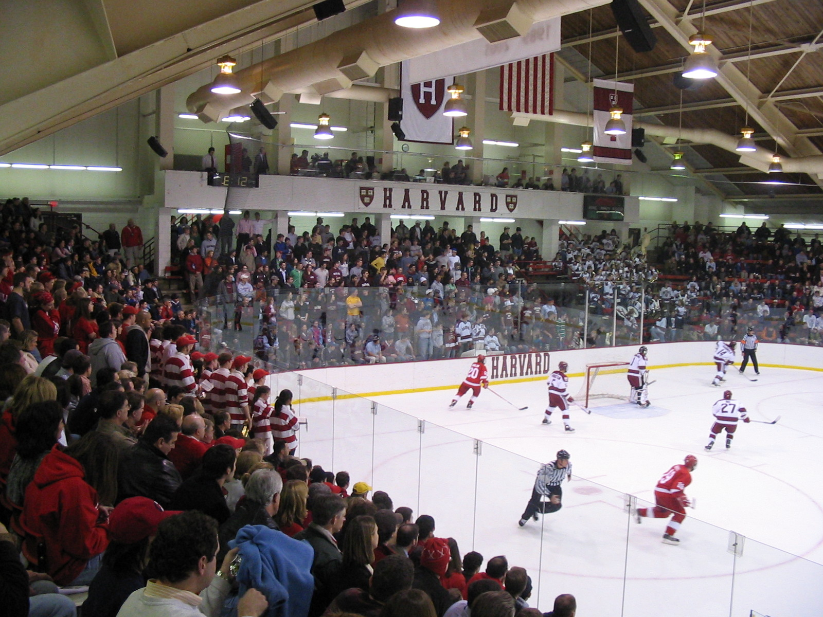 a game between Cornell and Harvard @ Bright Hockey Center, November 11, 2005. Cornell won, 4-3. The Harvard pep band is visible on the right, above the Harvard goaltender; the Cornell band is on the left in the red and white rugby shirts.